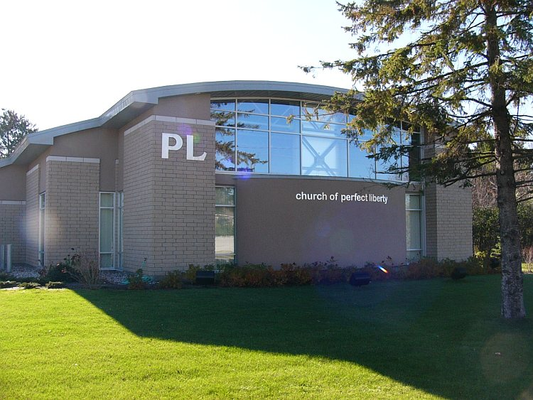 I took this photo of the Church of Perfect Liberty in Ottawa, Ontario, Canada on 02 November 2007.